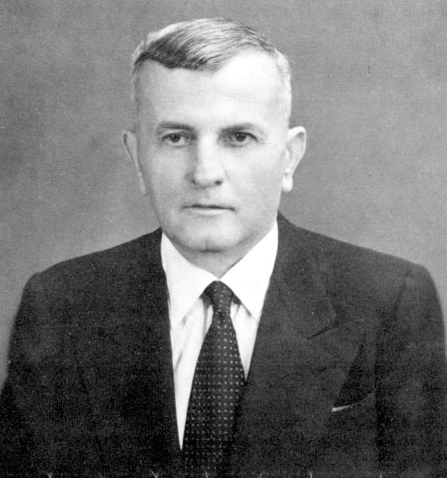 Abaz Kupi portrait